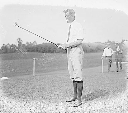 A photograph taken on July 16, 1921 of American golf professional Otto G. A. Hackbarth